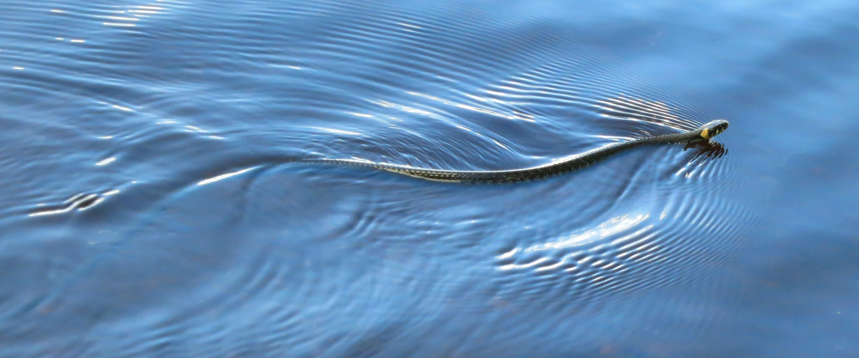 Natrix natrix is swimming in public beach of Lake Usmi (Uusimaa, Finland)